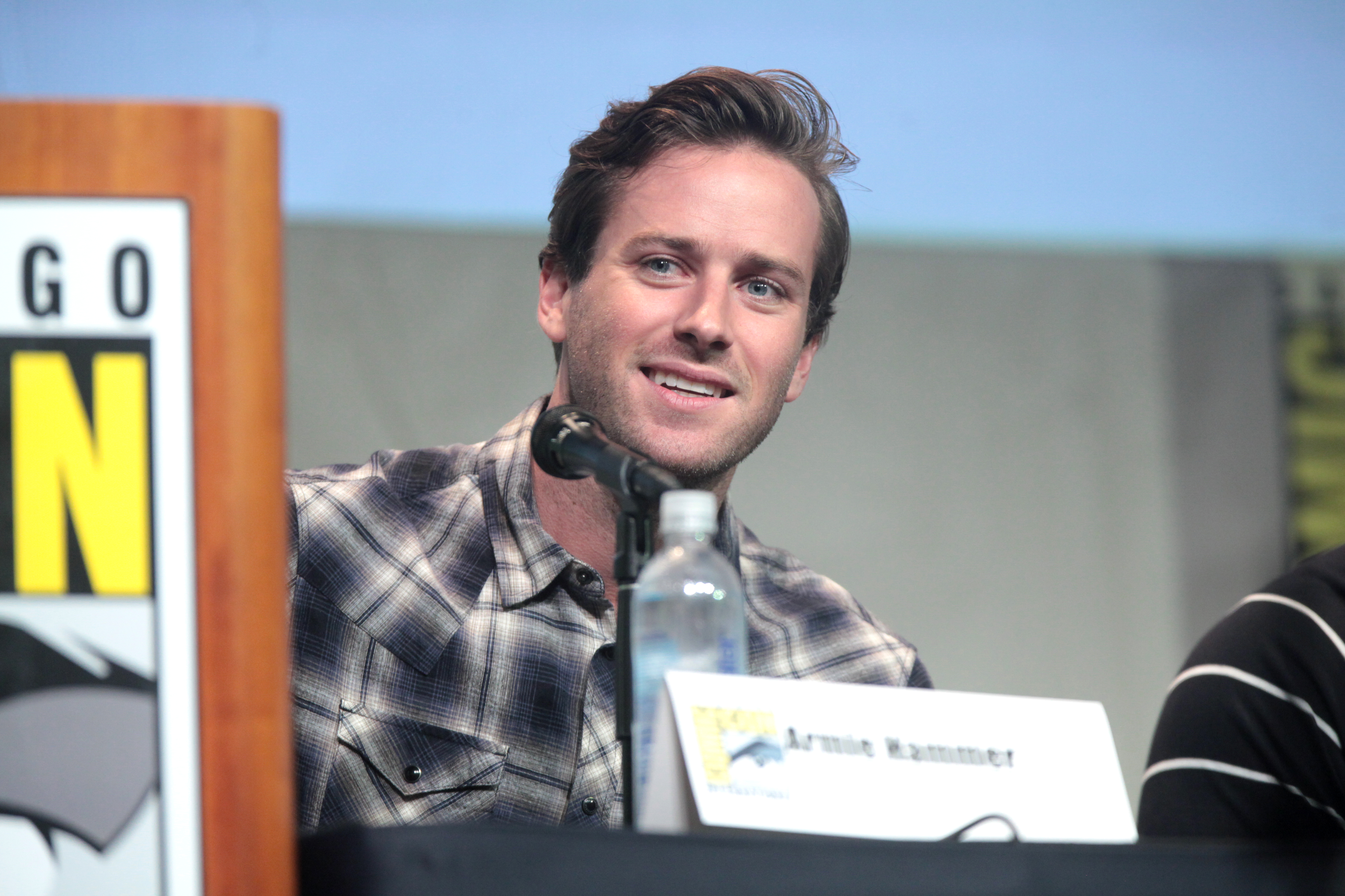 Armie Hammer speaking at the 2015 San Diego Comic Con International, for "The Man from U.N.C.L.E.", at the San Diego Convention Center in San Diego, California.